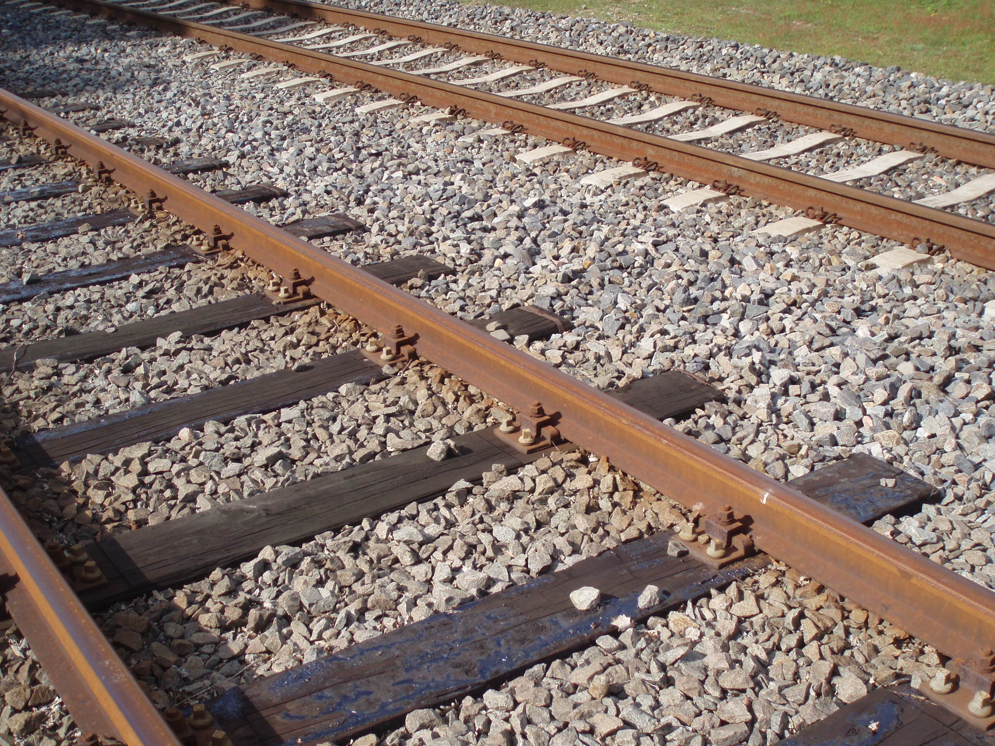 wood and concrete railroad ties, next to each other, Beugen (Netherlands)